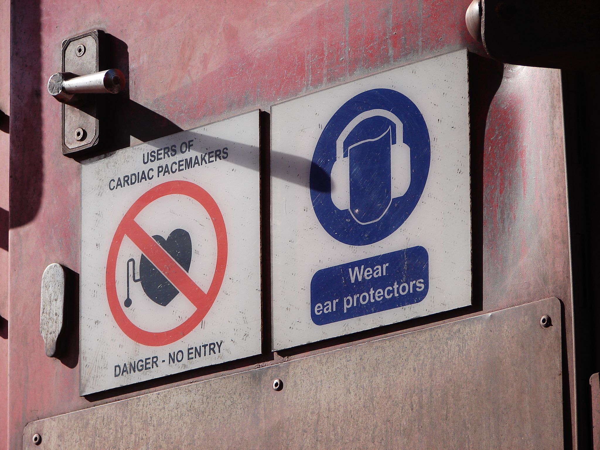 Warning signs on rear door of Class 15E no. 15-034Location: Saldanha, Western Cape